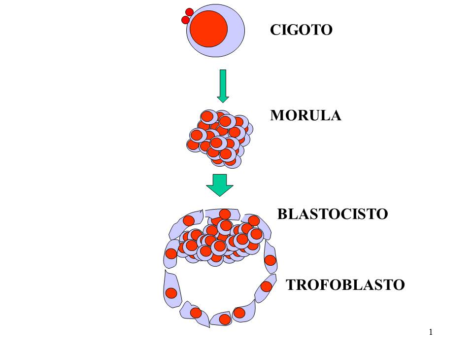 Zigoto, morula, blastocisto y trofoblasto